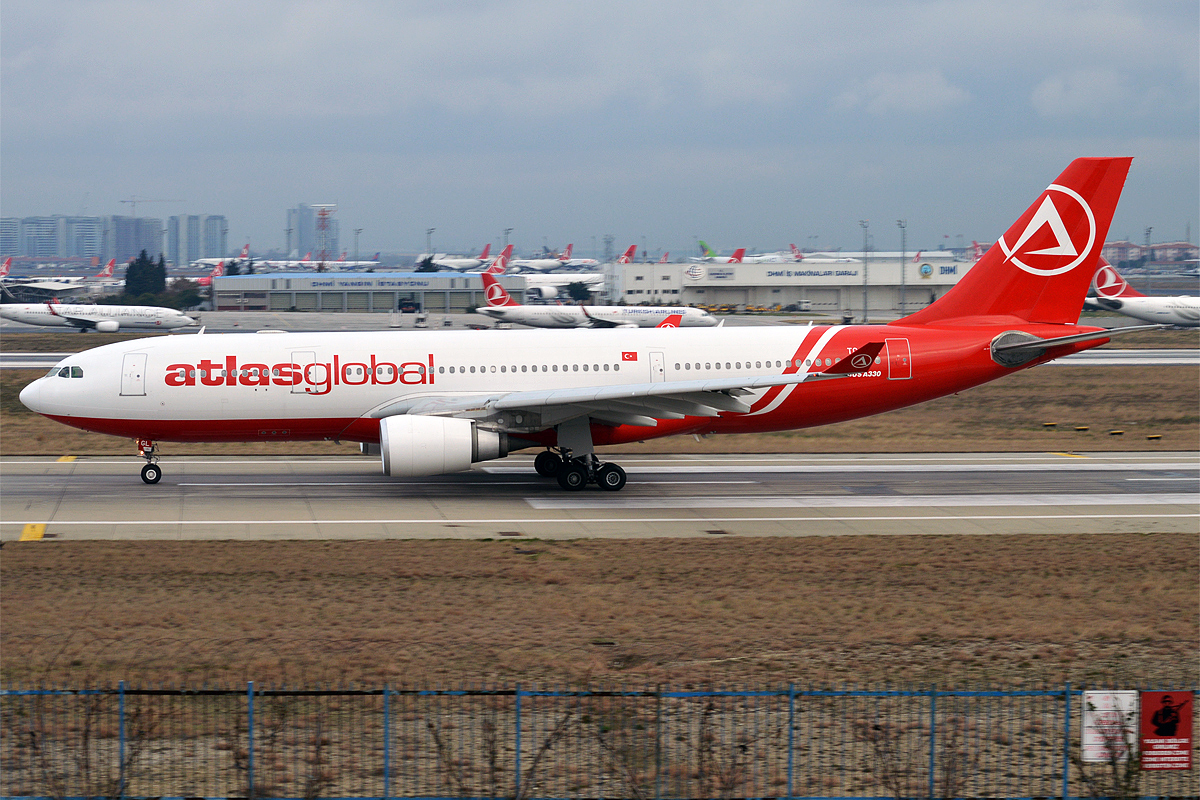 AtlasGlobal, TC-AGL, Airbus A330-203